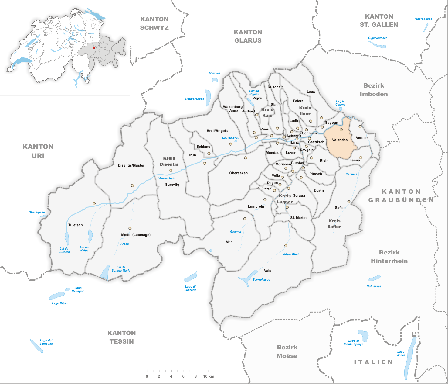 Municipality Valendas